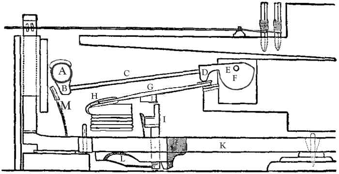 Pianoforte Cristofori Escapement Action